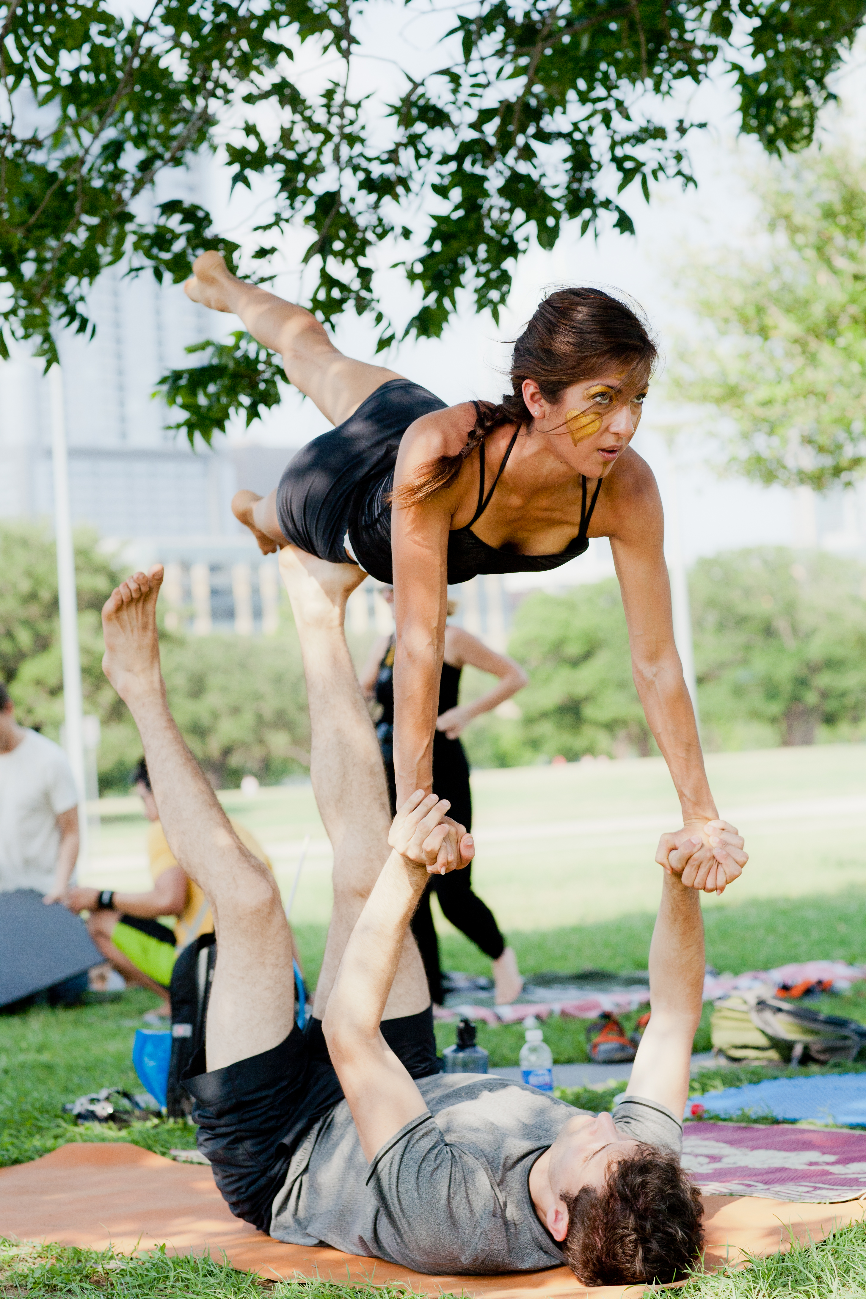 male and female participate in acroyoga